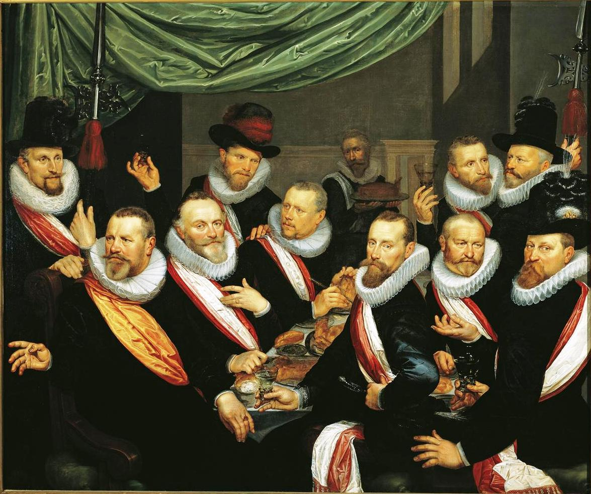 Officers' banquet of the St George Civic Guard in 1618, Haarlem.